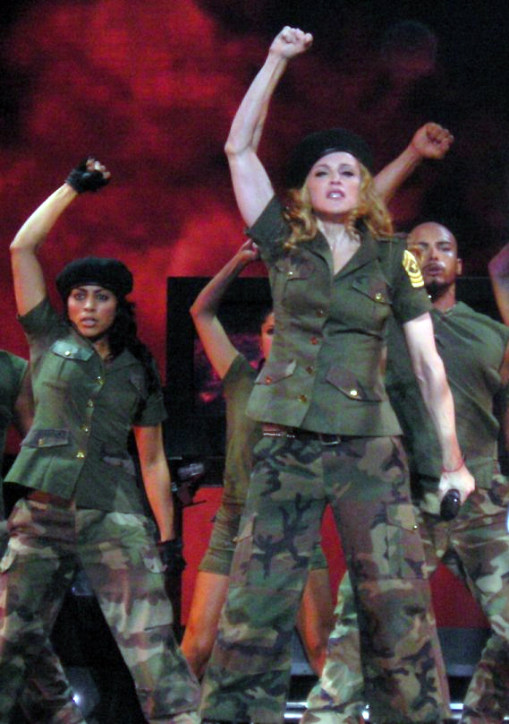 Picture taken at the Manchester concert